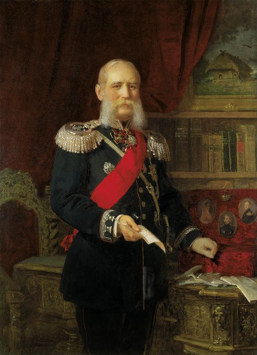 Portrait of Dr. Philipp Karell (1806–1886), private doctor of Czars Nicolai I and Alexander II.